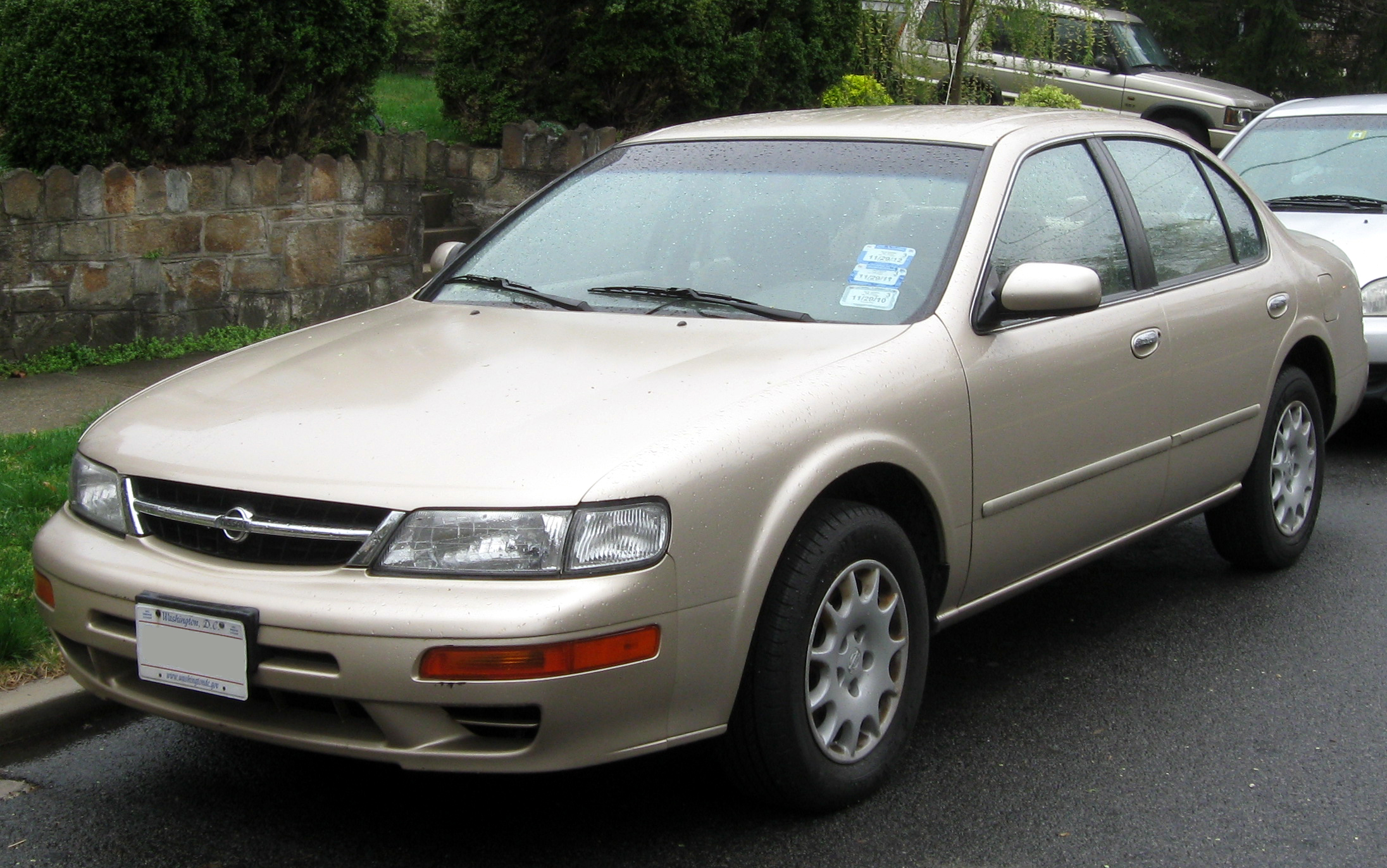 1997-1999 Nissan Maxima photographed in Washington, D.C., USA.